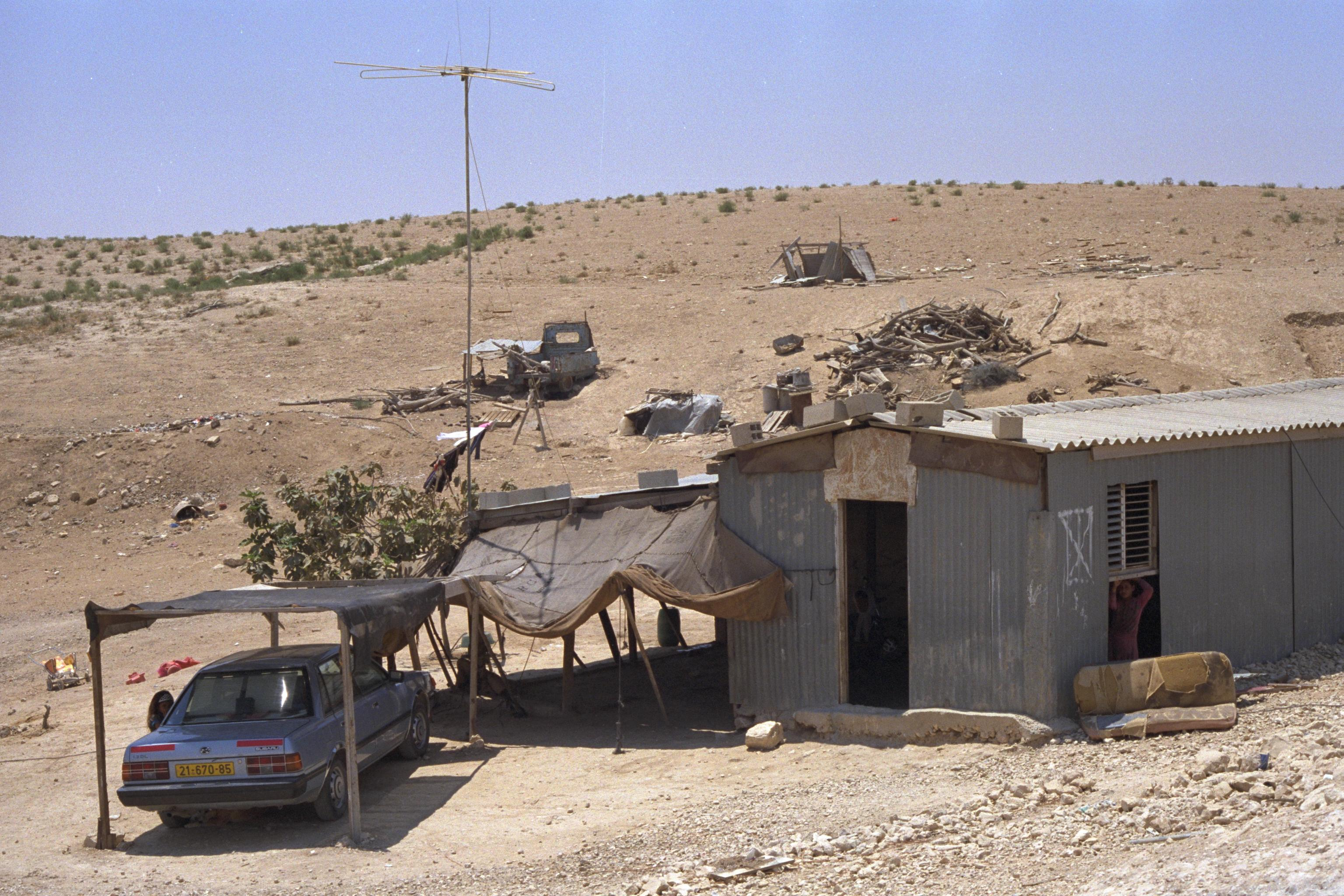 A Bedouin encampment near Arad. מאהל בדואי ליד ערד Photo: MARCUS YUVAL, 07/23/1991